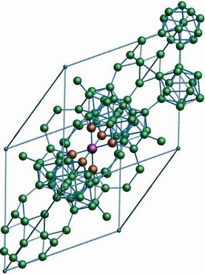 structure of beta-boron, structural data from J.L. Hoard, D.B. Sullenger, C.H.L. Kennard, R.E. Hughes, The structure analysis of β-rhombohedral boron, Journal of Solid State Chemistry, 1970, vol. 1(2), pp. 268-277.